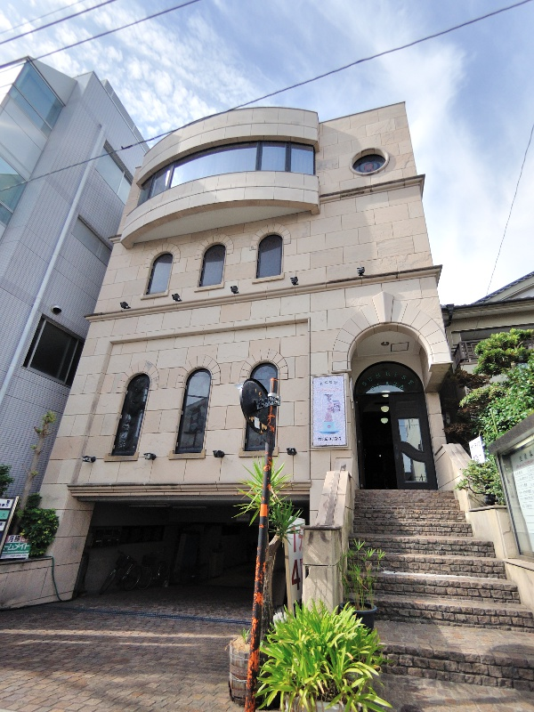 Sunrise Plaza Building